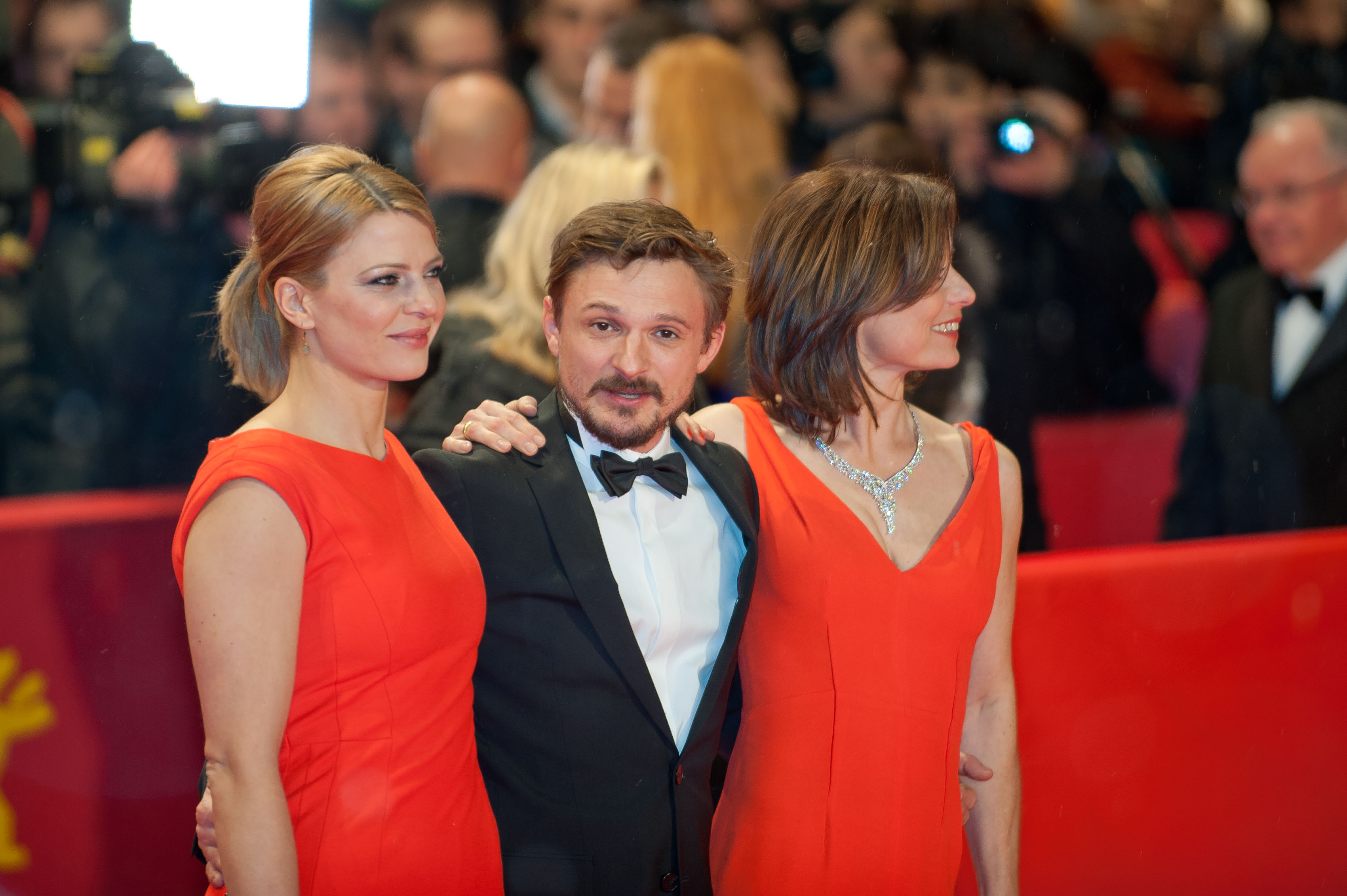 German Actors Jördis Triebel, Florian Lukas and Inka Friedrich (left to right) at the Berlin Film Festival 2013